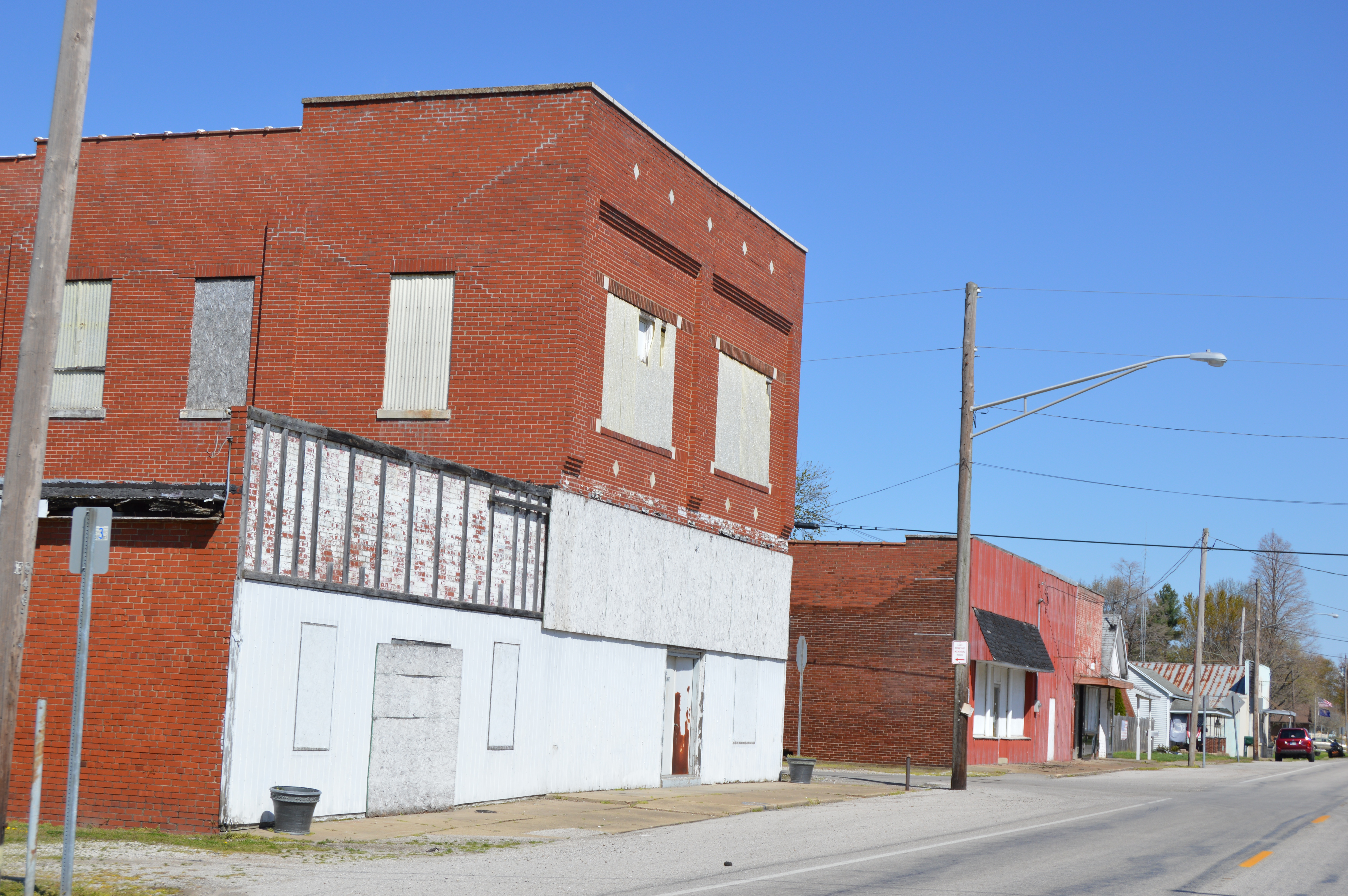 Buildings on the western side of Main Street (State Road 161) at the Adams Street intersection in Richland City, Indiana, United States.